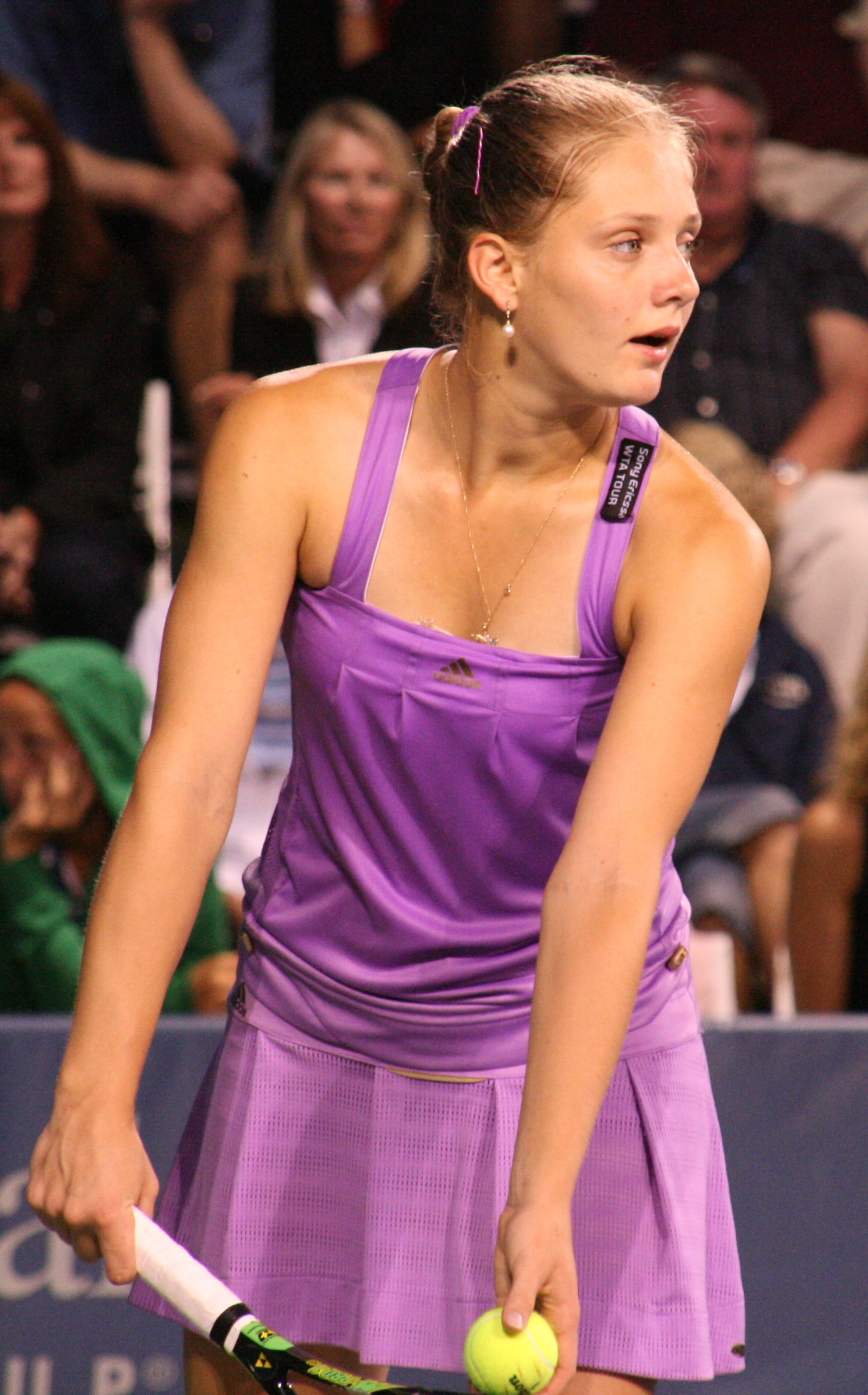 Anna Chakvetadze at the 2007 Acura Classic